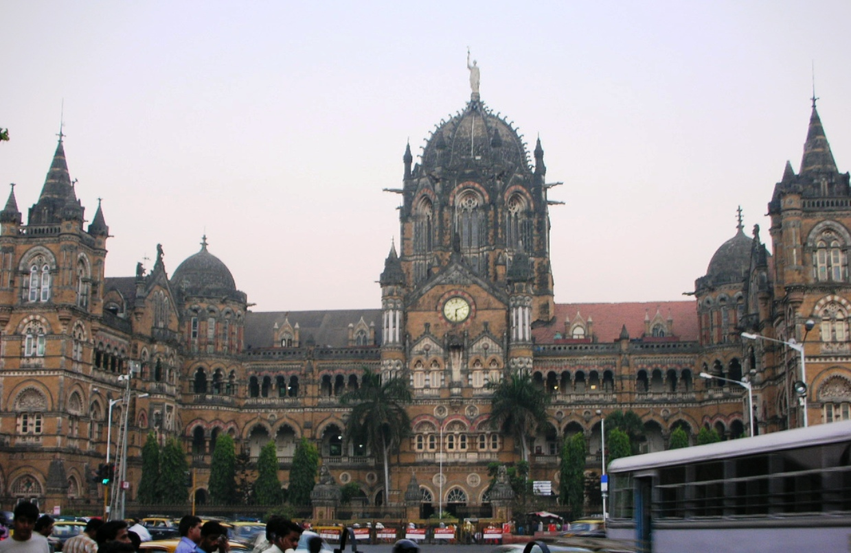 Central Railway headquarters Chhatrapati Shivaji Terminus